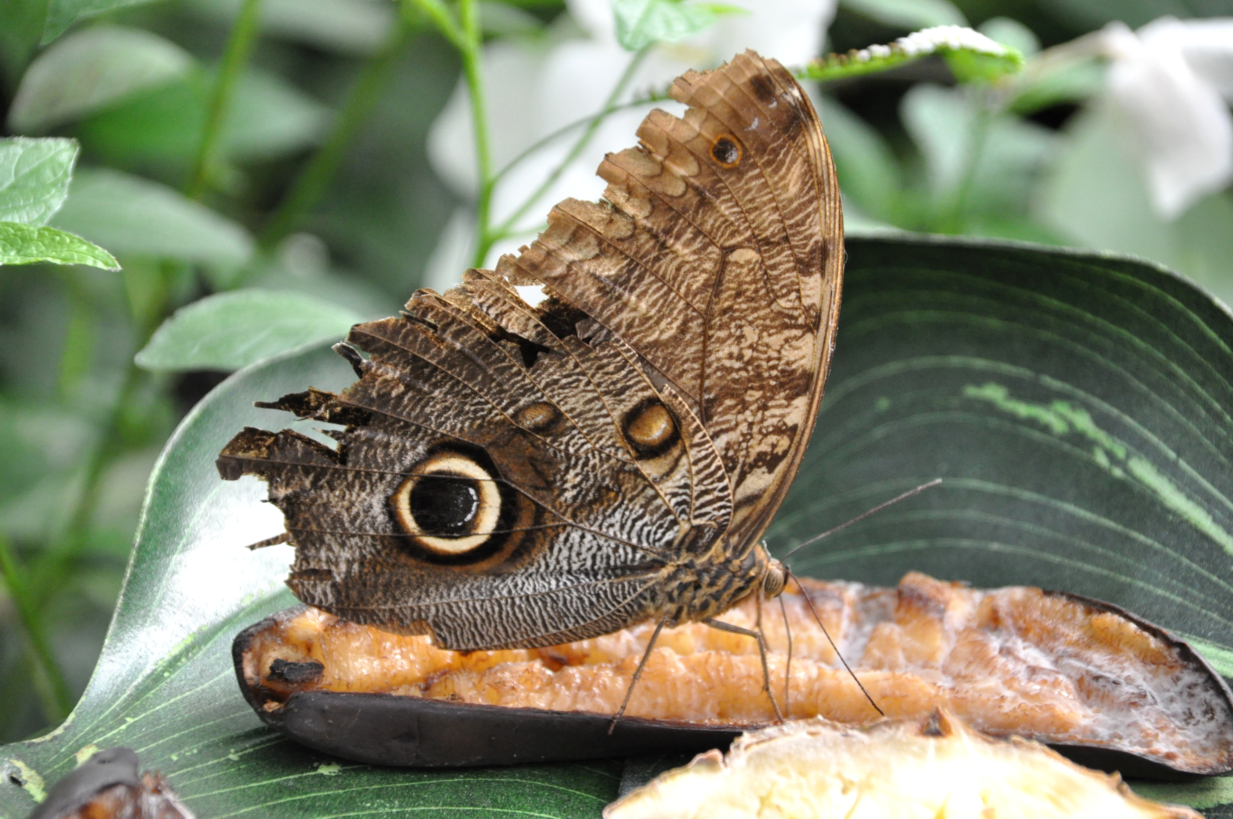 Purple Owl (Caligo beltrao)